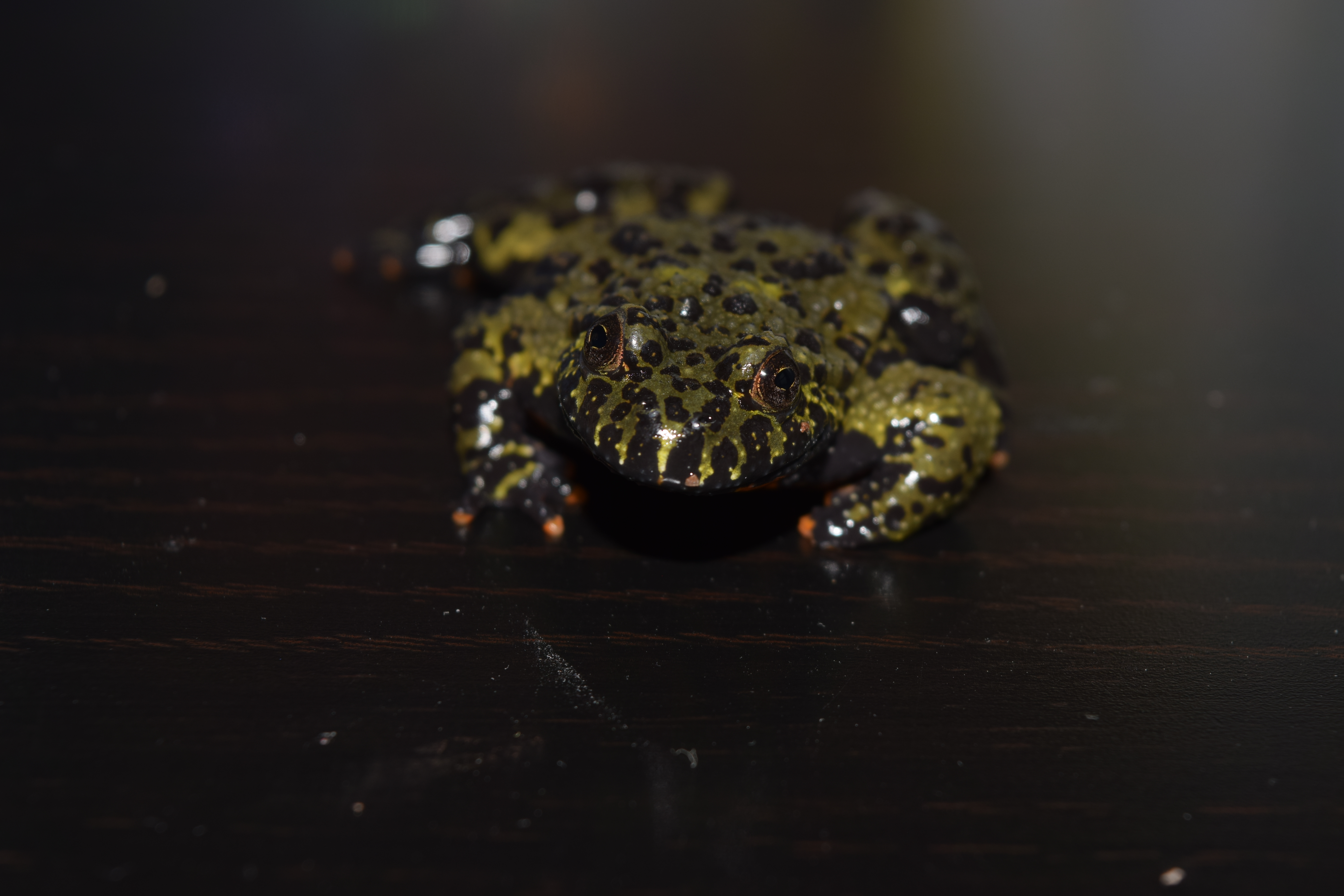 An image of Circuit, my bombina orientalis (oriental fire belly toad)